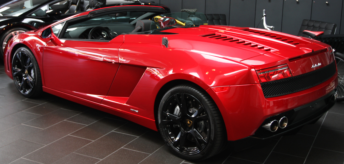 INSANE Rosso Vik Symbolic had when I was there... absolutely perfect color combo.